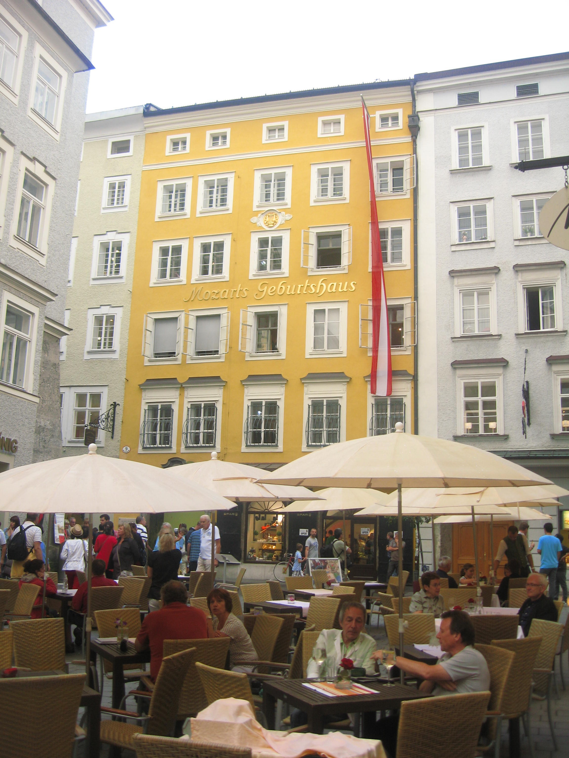 Mozarts Geburtshaus Salzburg